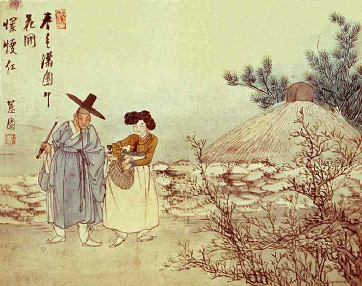 “Spring mood covers all over the places” (translit. title:Chunsaek manwon) from Hyewon pungsokdo held by Gansong Art Museum in Seoul, South Korea